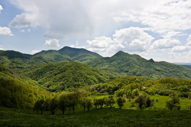 Rogozna Mountain, with Crni vrh and Jeleč summits